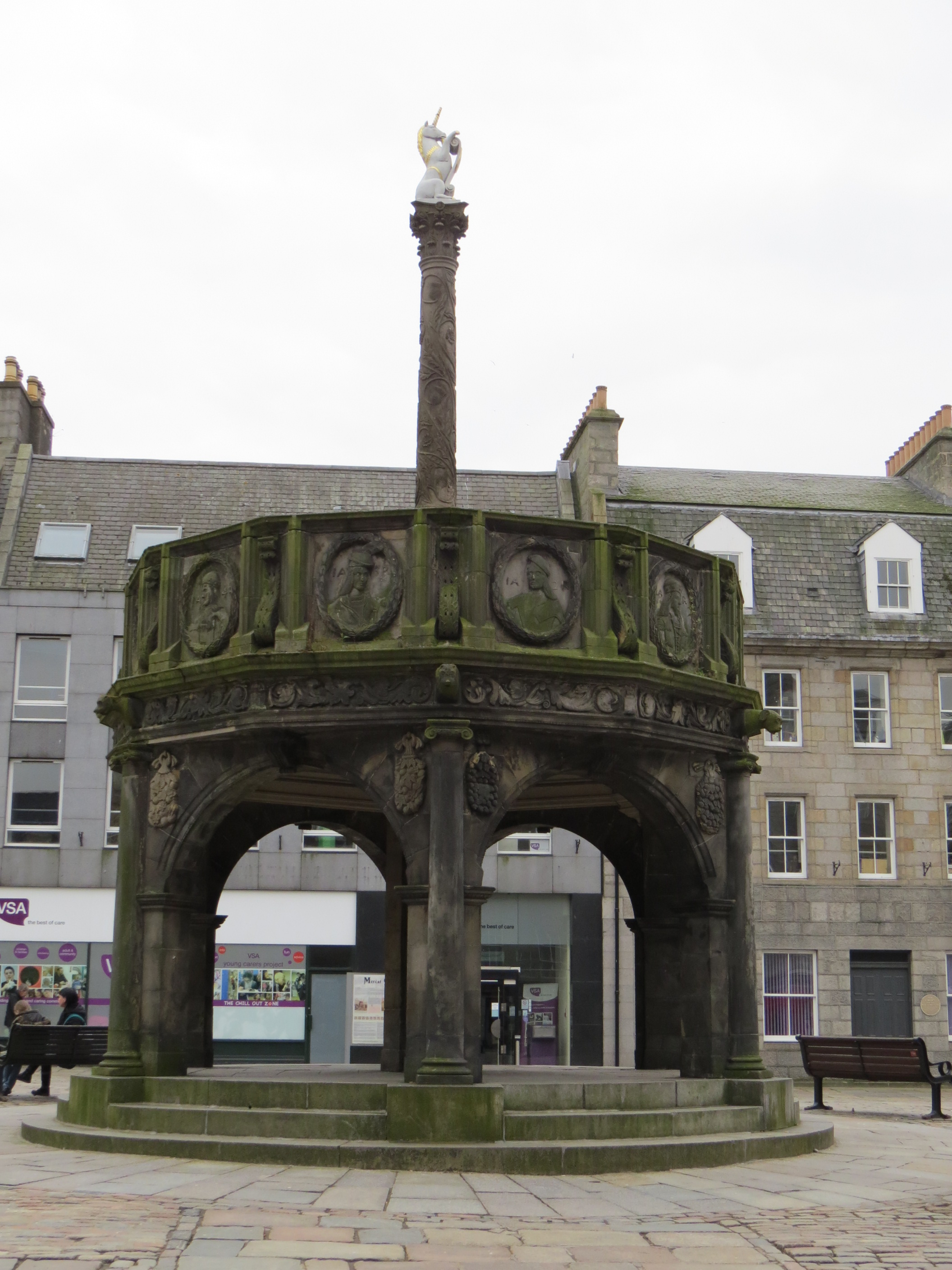 Market Cross, Aberdeen